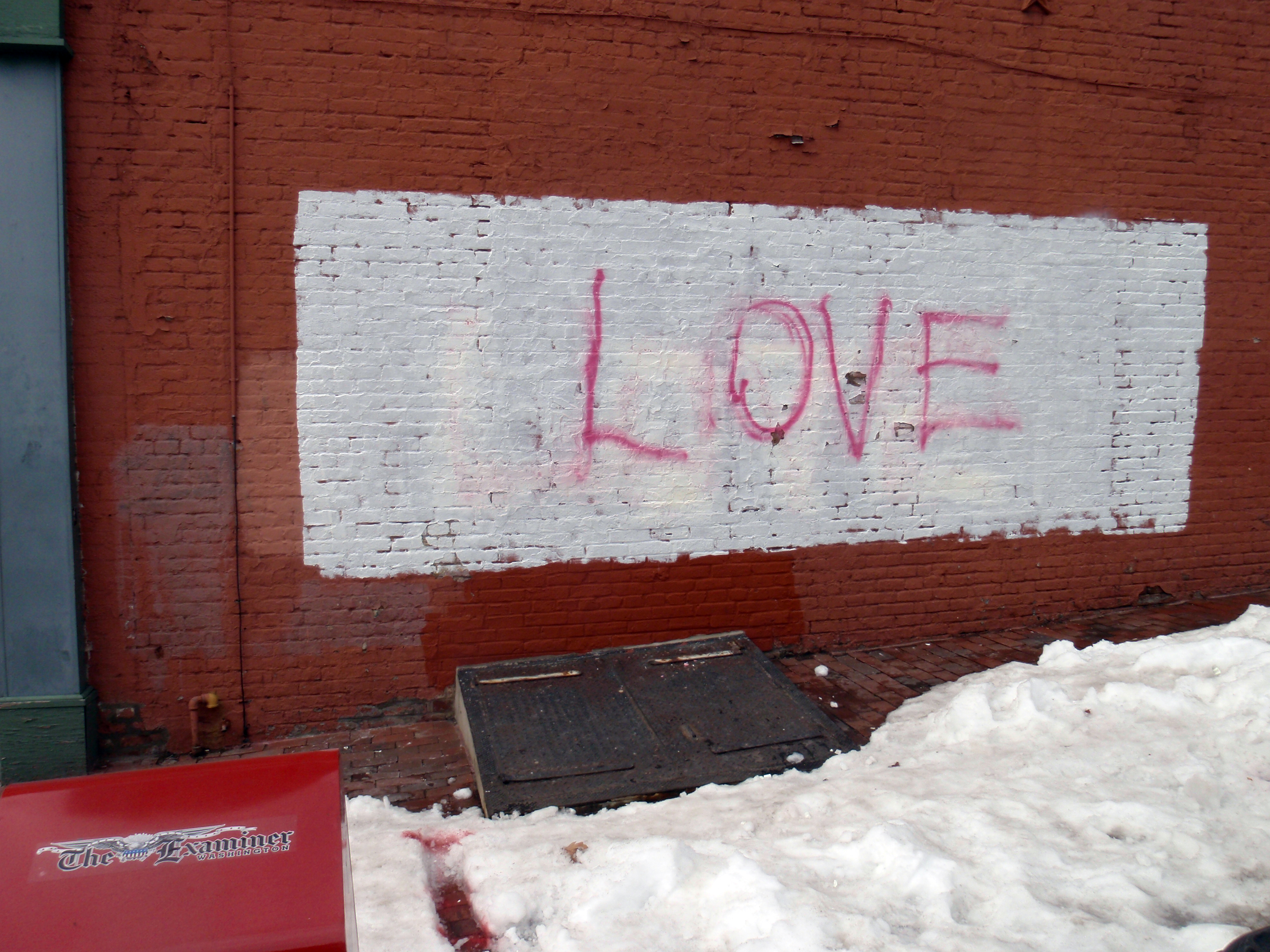 Returning Love